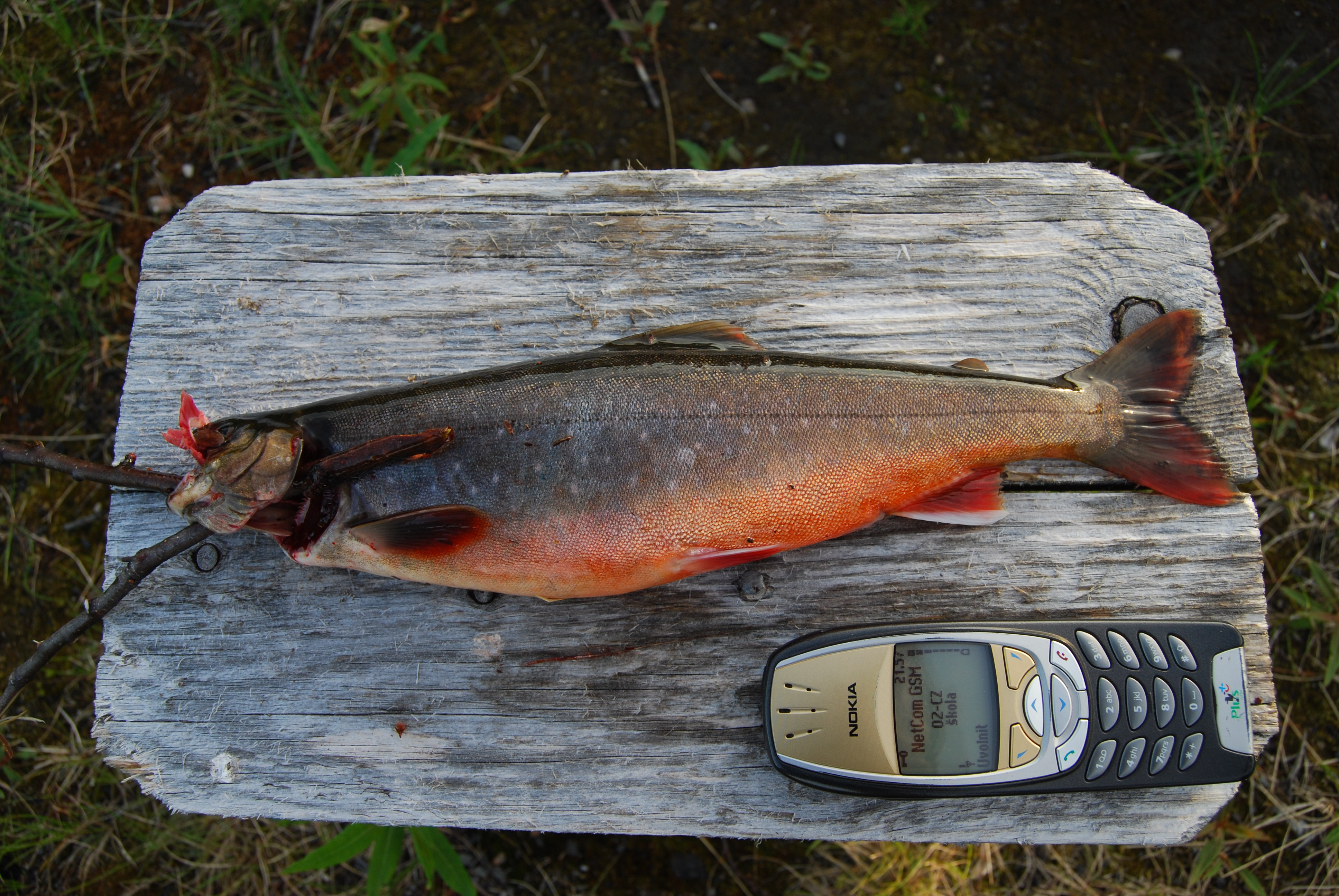 Salvelinus alpinus, Norway